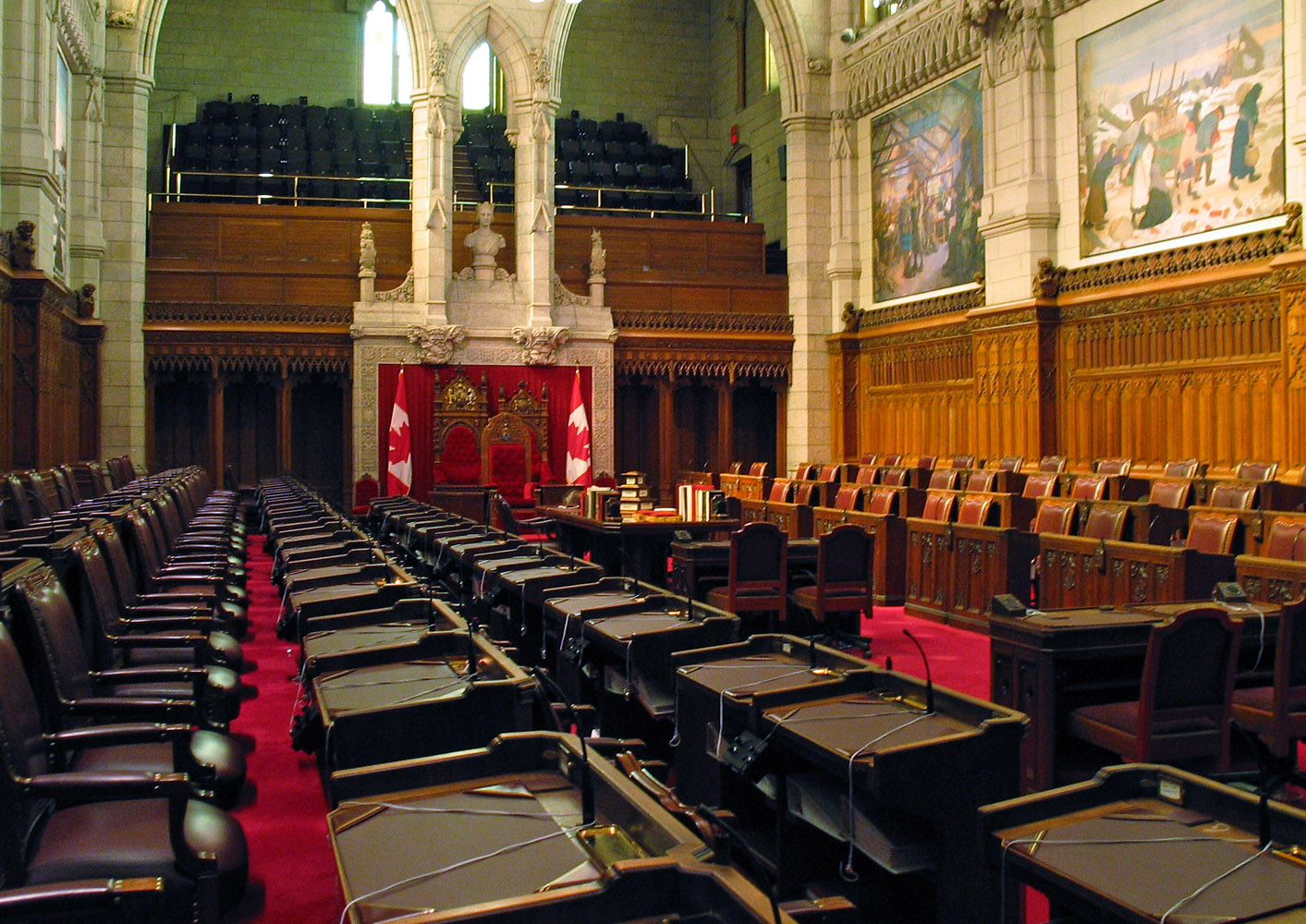 The Parliament. The Senate Chamber / Ottawa, Canada